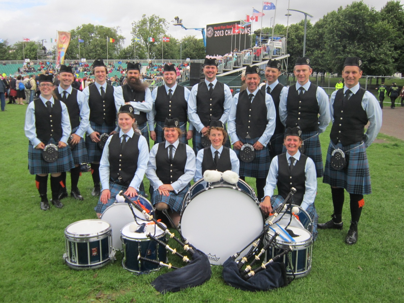 The Bergen Pipes & Drums after performing at the World Piping Championships 2013 in Glasgow, Scotland under Pipe Major Thomas De Ridder.